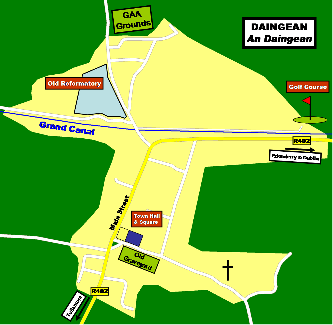 Map of Daingean village, County Offaly, Ireland. Shows roads, housing areas and various landmarks/amenities.